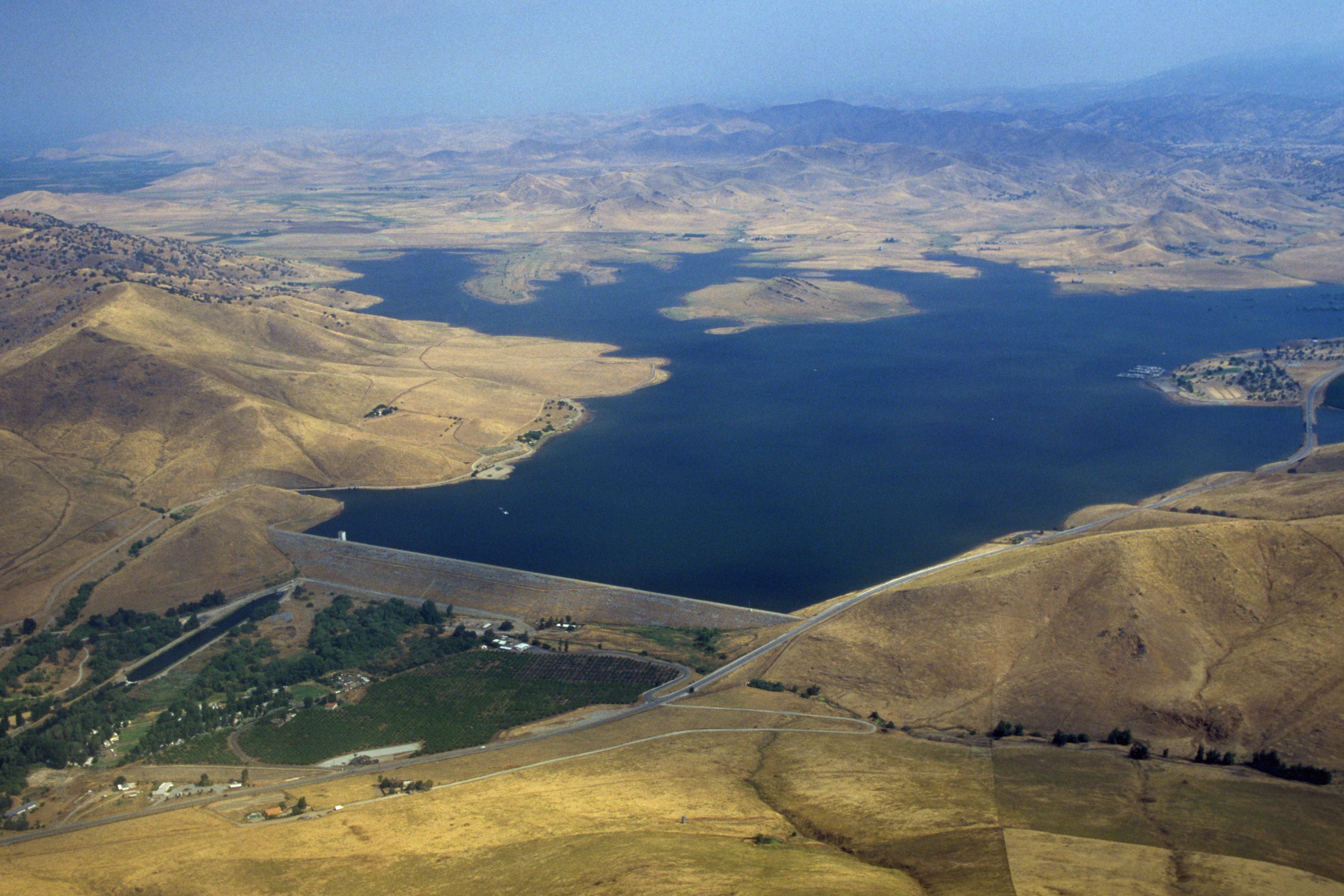 Looking north in an aerial view of Success Dam, located near Porterville, Calif., Nov. 8, 2004. The U.S. Army Corps of Engineers Sacramento District completed construction of Success Dam in 1961 and the reservoir provides flood risk management, water storage and recreational benefits to the local area. (U.S. Army photo by Michael J. Nevins/Released)